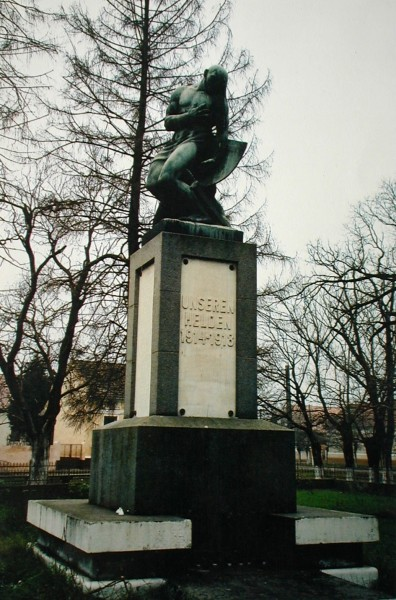 Memorial of I World War, Şandra, Romania